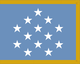 The Medal of Honor flag presented to those who have been bestowed the US decoration of the same name. DESCRIPTION: A light blue flag with gold fringe bearing thirteen white stars in a configuration as on the Medal of Honor ribbon. SYMBOLISM: The light blue color and white stars are adapted from the Medal of Honor ribbon. The flag commemorates the sacrifice and blood shed for our freedoms and gives emphasis to the Medal of Honor being the highest award for valor by an individual serving in the Armed Forces of the United States. BACKGROUND: Public Law 107-248, Section 8143, legislated the creation of a Medal of Honor Flag for presentation to each person to whom a Medal of Honor is awarded after the date of the enactment, October 23, 2002. A panel of eight members made of representatives from each Service (Army, Navy, Marine Corps, Air Force and Coast Guard), one Office of Secretary Defense staff, one historian and one representative from the Medal of Honor Society was formed to review and evaluate all designs submitted and make a final recommendation to the Principal Deputy to the Under Secretary of Defense for Personnel and Readiness. On 15 December 2004, the design submitted by Ms. Sarah LeClerc, Illustrator at The Institute of Heraldry was approved. [1] The png version was drawn by User:Zscout370.